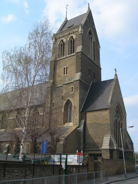 East end of St Matthias' parish church, Wordsworth Road, London N16, seen from the southeast